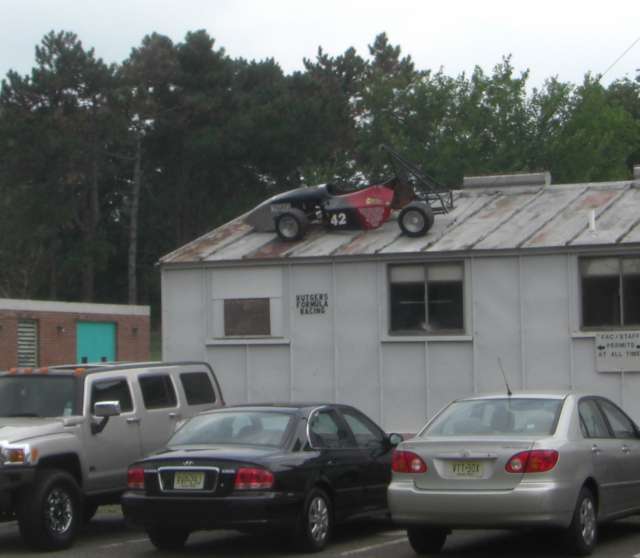 Photograph of RFR-03 chassis and body on roof of shop.